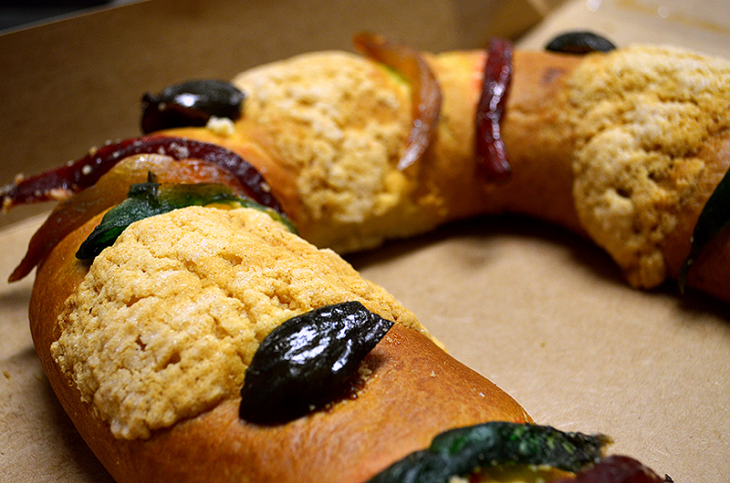 A king cake (sometimes rendered as kingcake, kings' cake, king's cake, or three kings cake) is a type of cake associated with the festival of Epiphany in the Christmas season in a number of countries, and in other places with the pre-Lenten celebrations of Mardi Gras / Carnival. In the pic, a king cake from Mexico. Tags: rosca,reyes,close-up,Mexico